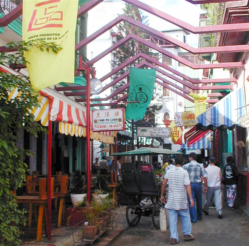 Dragones street Havana's Chinatown core Havana, Cuba